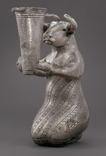 Proto-Elamite kneeling bull holding a spouted vessel. Working Title/Artist: Kneeling bull holding a spouted vesselDepartment: Ancient Near EastCulture/Period/Location: Proto-Elamite periodHB/TOA Date Code: 02Working Date: 3100-2900 B.C. photography by mma, Digital File "DT848_in_prog1.psd" retouched by film and media (phc & jnc) 1_25_11